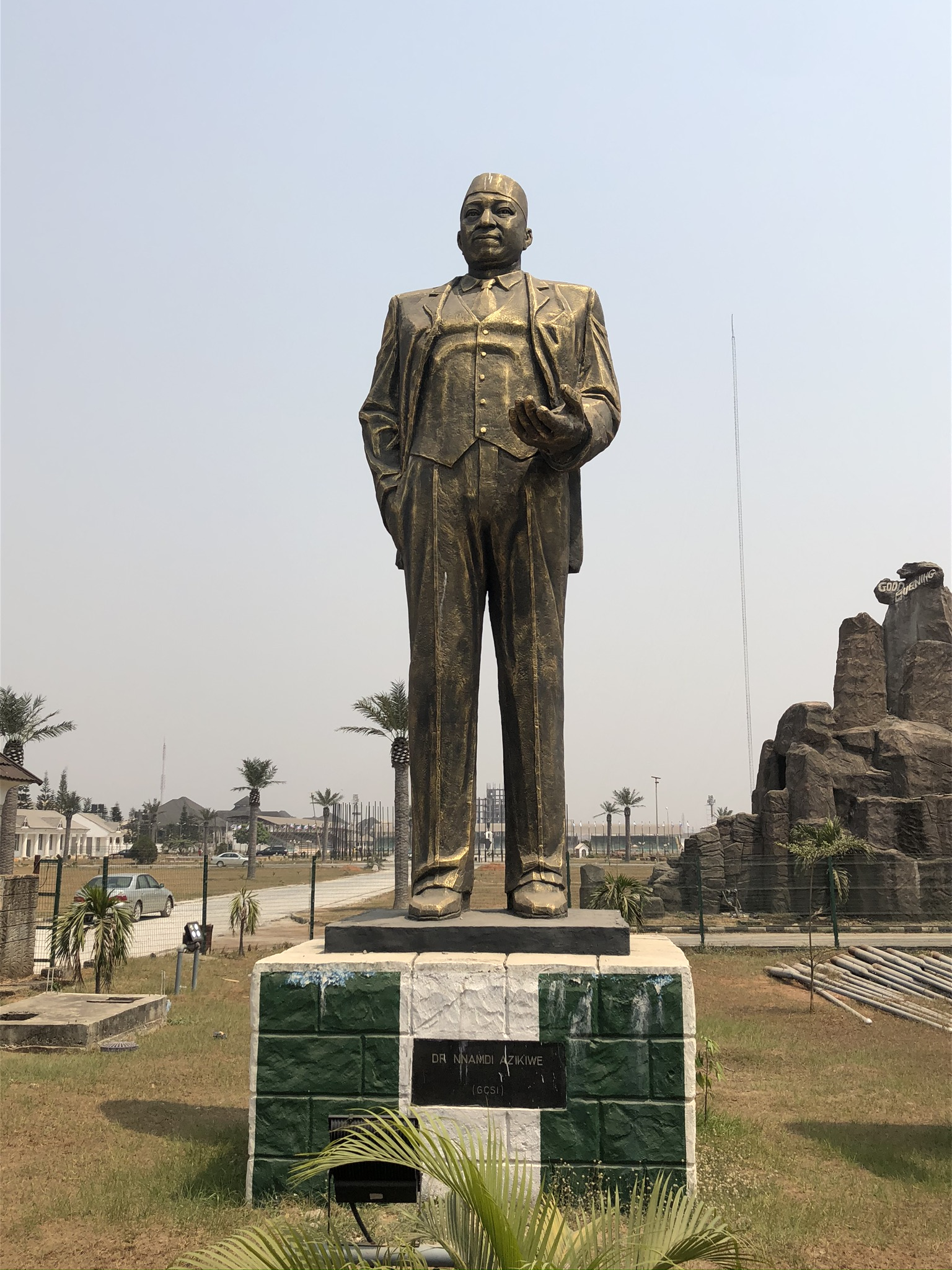 Statue Tourist attraction in Owerri Imo State